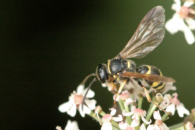 Gorytes quadrifasciatus from Commanster, Belgian High Ardennes .